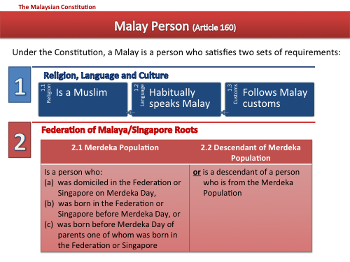 A diagram of the definition of a Malay person under Art 160 of the Malaysian Constitution